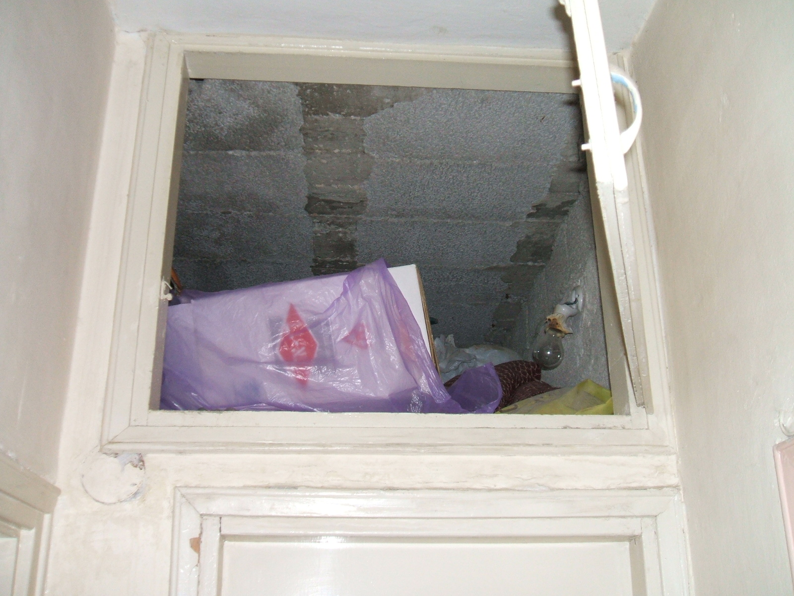 "Boidem" (small attic) in an apartment in Jerusalem